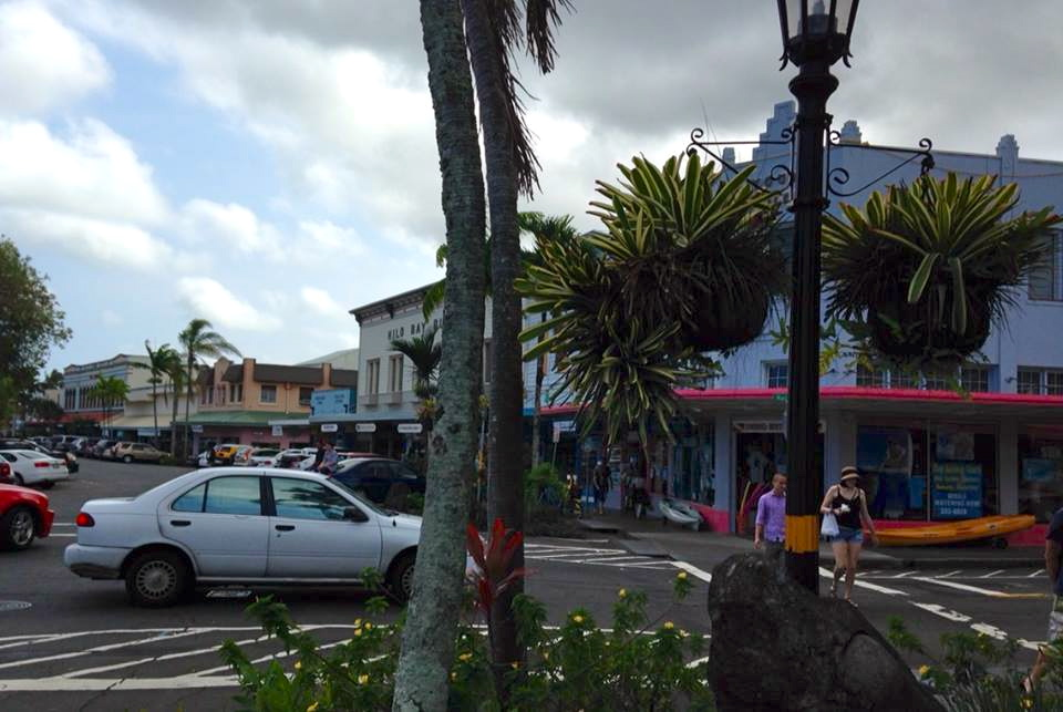 Downtown Hilo, Hawaii